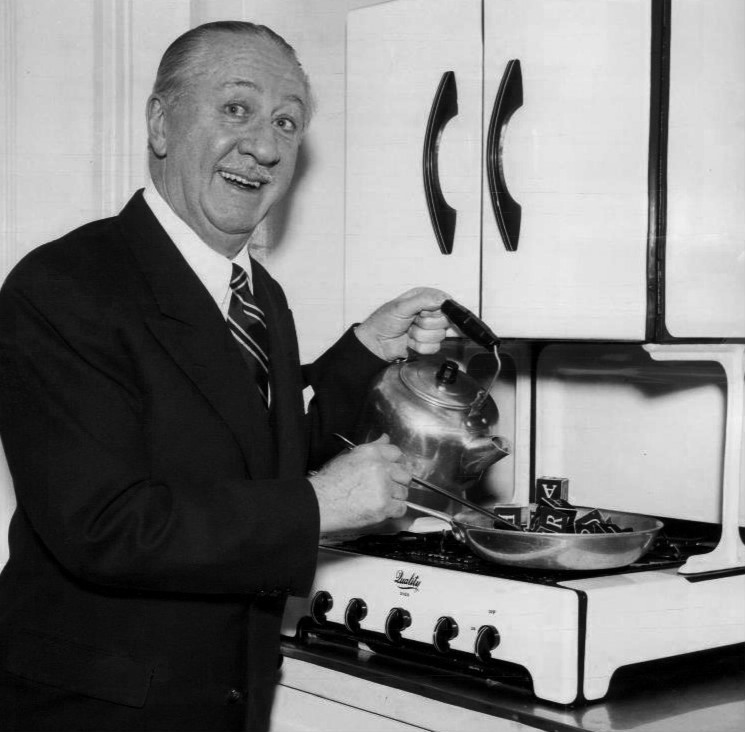 Photo of Roy Atwell, actor, comedian and songwriter. Atwell also played "the professor of scrambled speech" on radio.